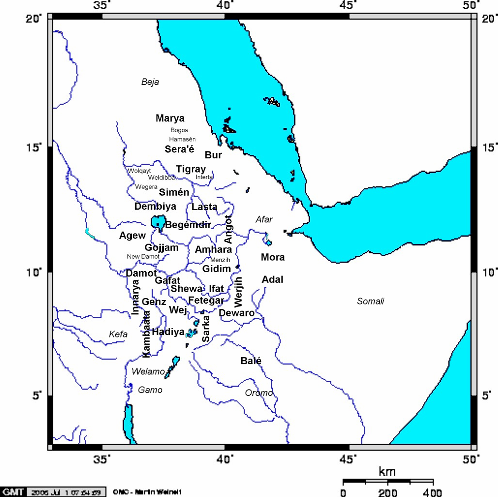 Created by me (Yom). Map of Medieval Ethiopian provinces in large bold lettering, sub-provinces in small lettering, and neighboring tribes in italics (not part of Ethiopia in Medieval times - some may have had their own kingdoms).